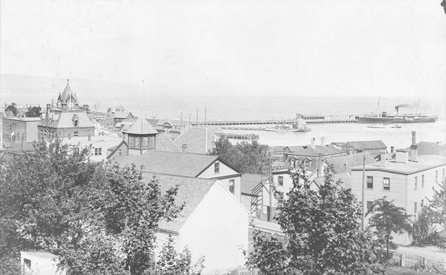 Digby, Nova Scotia, as it appeared in 1906.